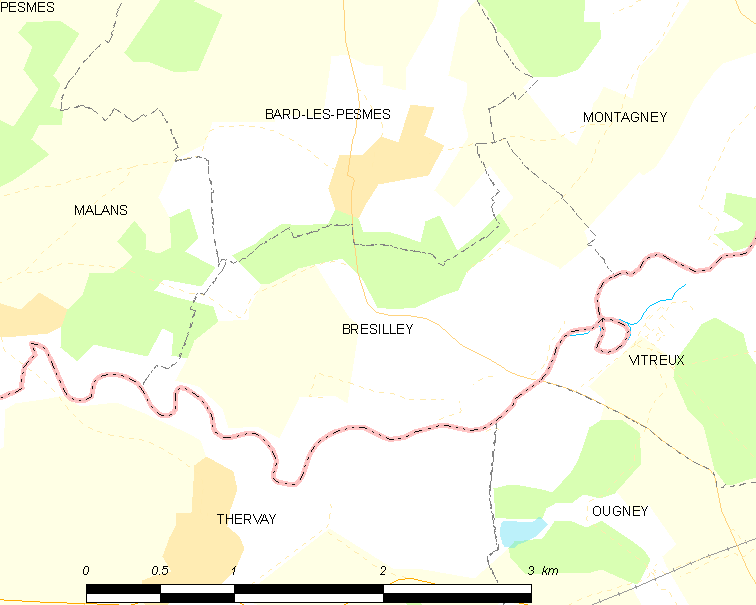 Map of French municipality